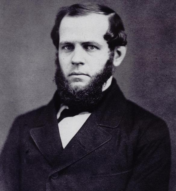 Vermont Historical Society - Official portrait 1860s